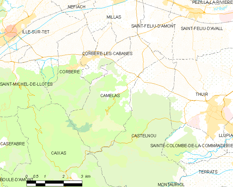 Map of French municipality